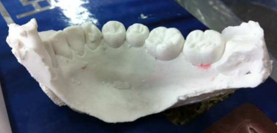 A gypsum cast